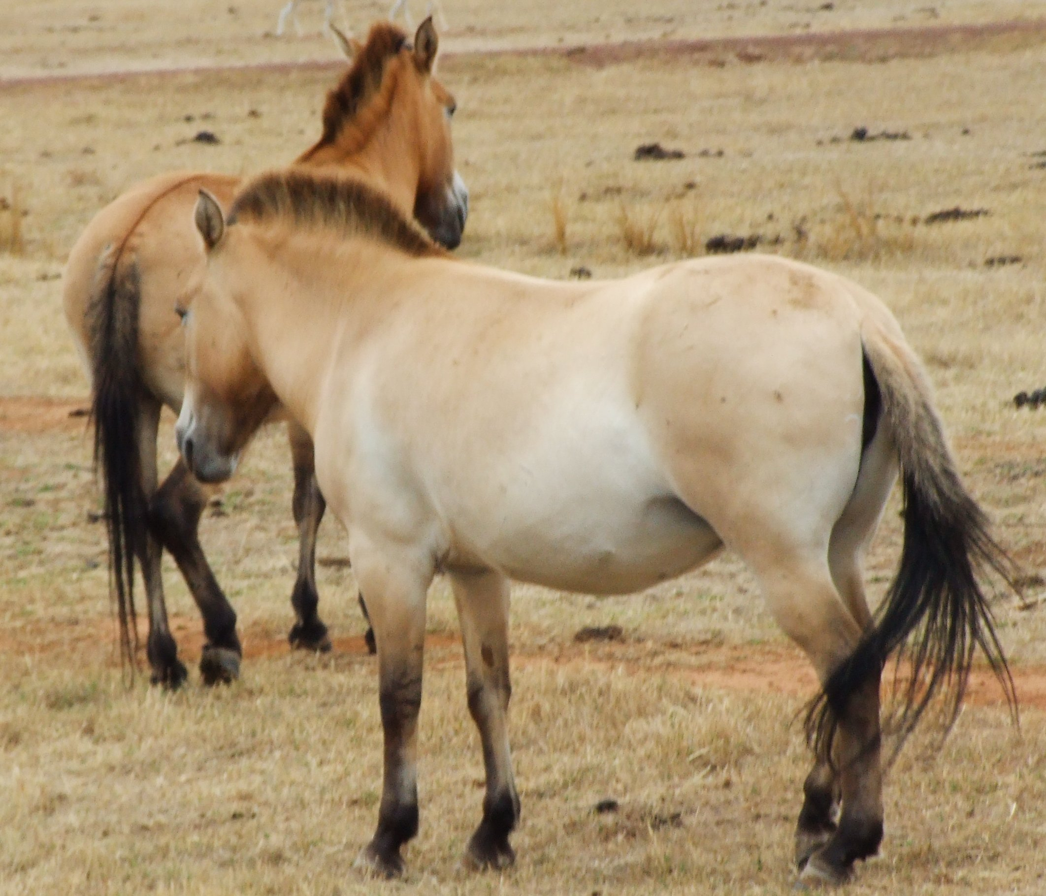 Przewalski's Horse from Werribee Open Range Zoo, Victoria, Australia.